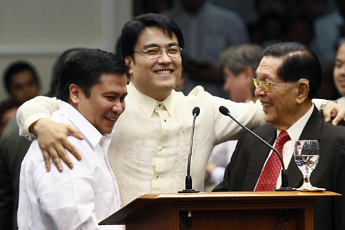 Senator Bong Revilla delivering his privilege speech, "Salamat, Kaibigan". The official description is as follows: “PRIVILEGE SPEECH: Senator Ramon “Bong” Revilla, Jr., hugged Minority Leader Juan Ponce Enrile and Senator Jinggoy Estrada after delivering a privilege speech during plenary session, Monday afternoon. In his speech, Revilla challenged President Benigno Aquino III “to lead the country towards unity, and not partisanship.” (PRIB Photo by Alex Nuevaespaña/9 June 2014)”